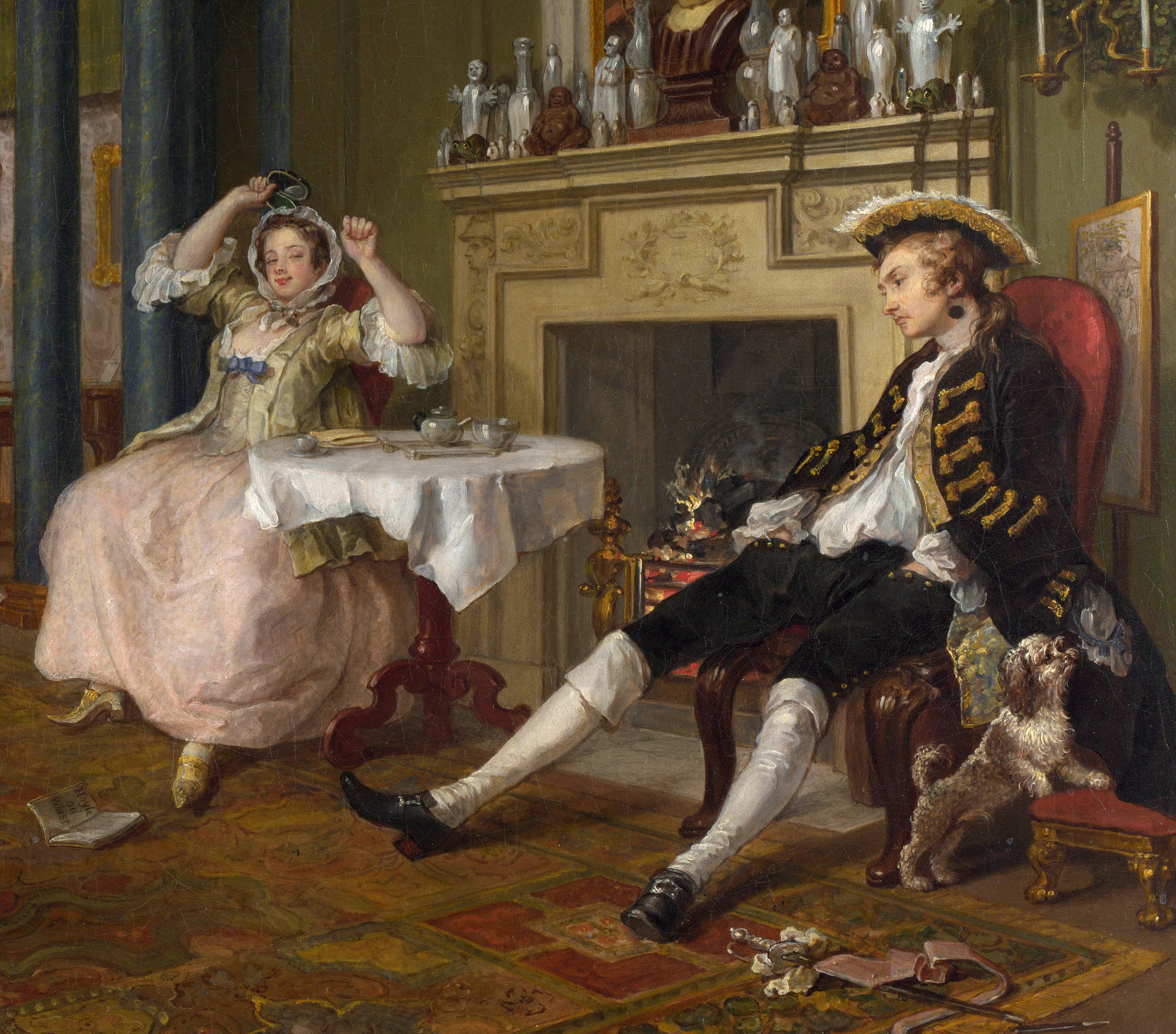 Detail of "Marriage à la Mode" No 2